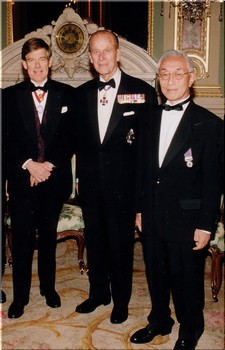 Front right--Hiroshi Narita; Middle--H.R.H. Prince Philip, Duke of Edinburgh; Left--Alec, Lord Broers, President of Royal Academy of Engineering in 2002 at formal ceremony welcoming Narita as a newly-elected fellow.